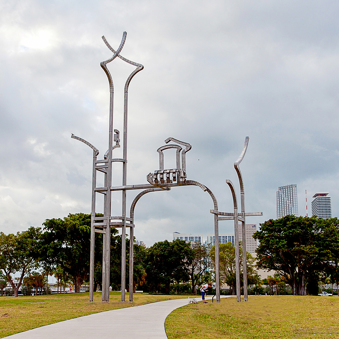 Havana's Balcony Miami. Public sculpture 31 meters (69 feet) high by Juan Garaizabal. 2016